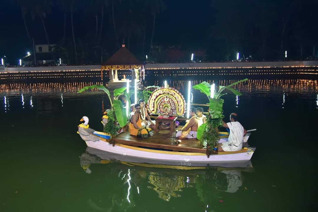 ದೇವರ ತೆಪ್ಪೋತ್ಸವ